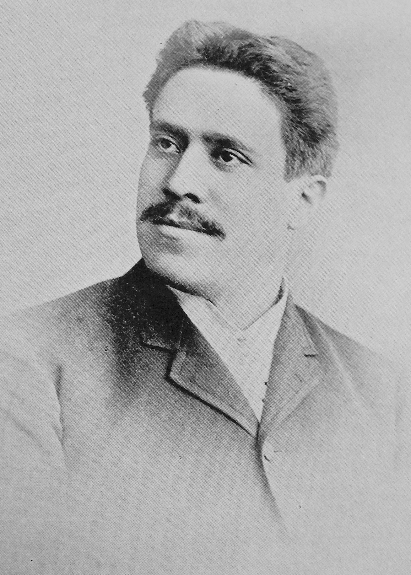 Señor Juan Aparicio, hijo. Filántropo quetzalteco que fuera fusilado sumariamente durante la Revolución Quetzalteca de 1897.